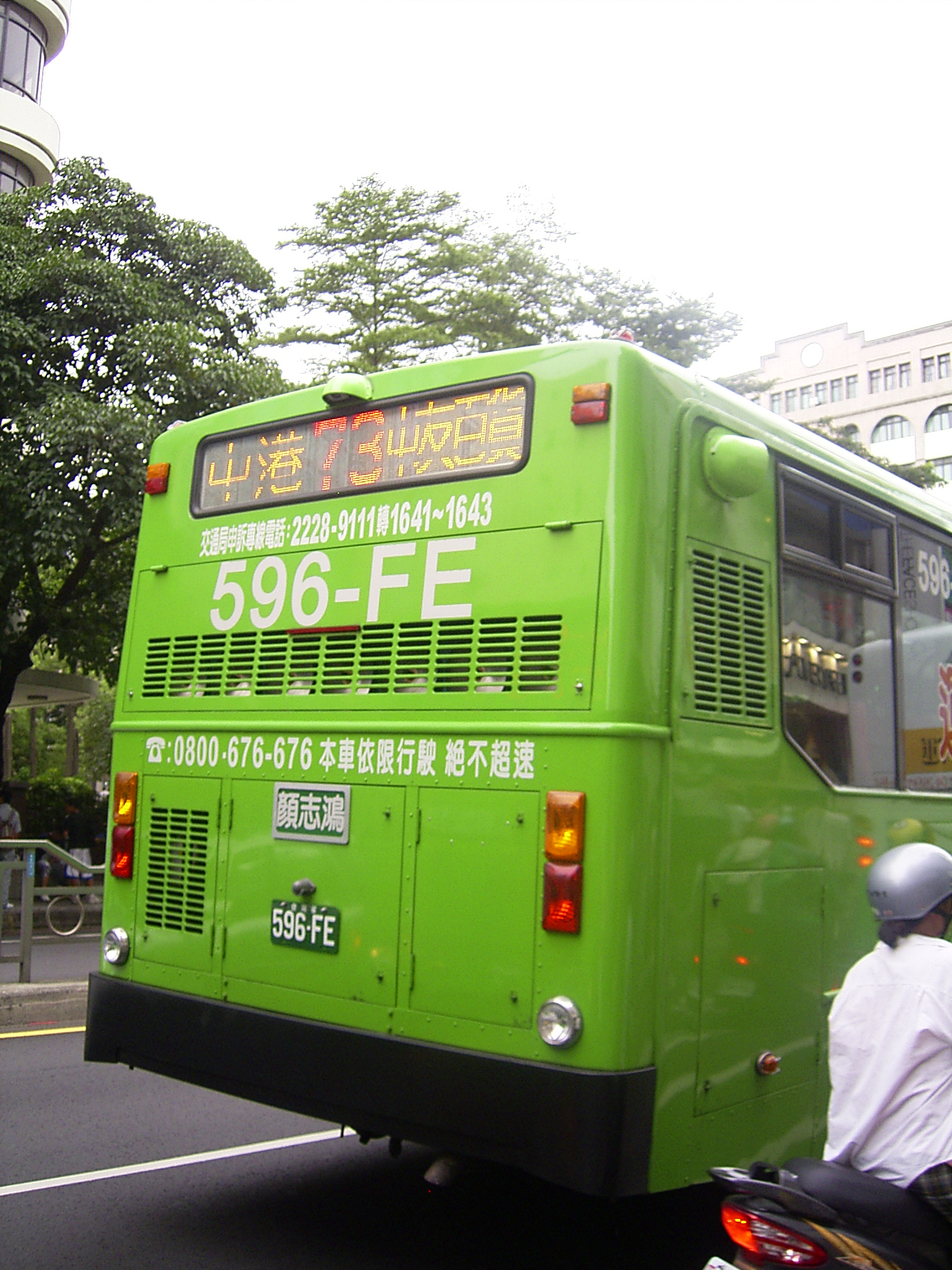 LED display on back side of United Bus 596-FE.